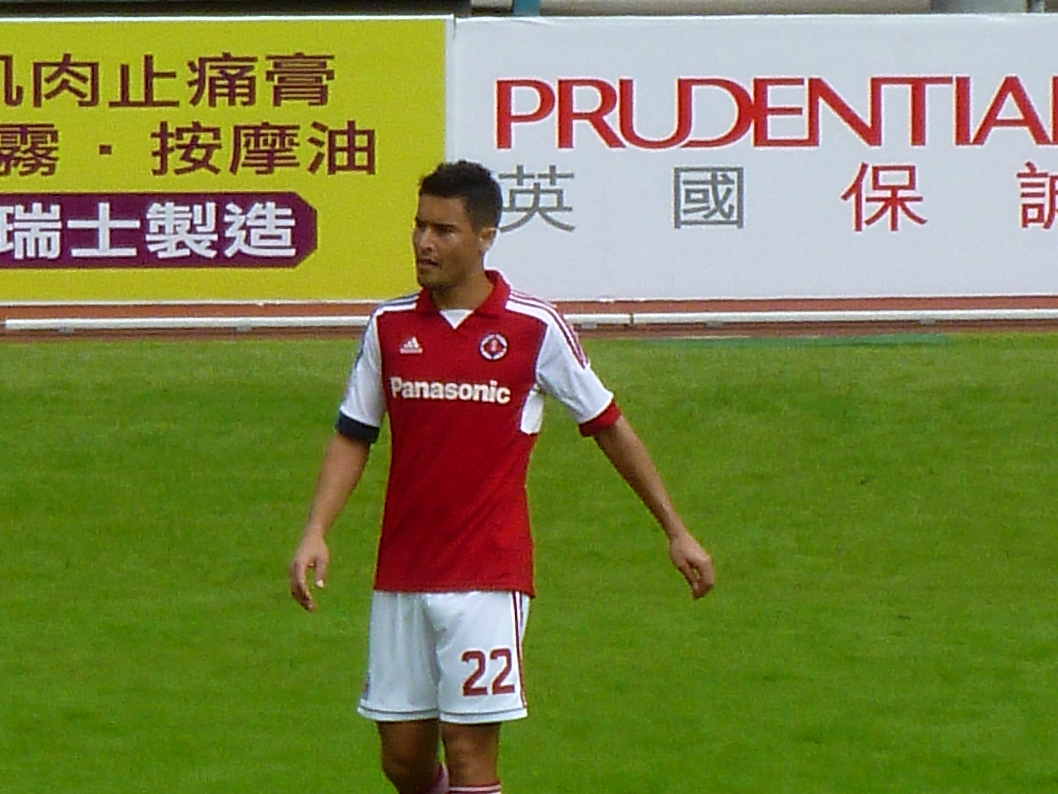 Giovane Alves da Silva (17 Mar 2012 Hong Kong First Division League, Tai Po vs South China, Tai Po Sports Ground)